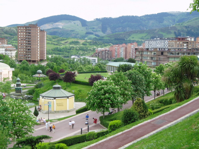 The Europa park of Txurdinaga (Bilbao).